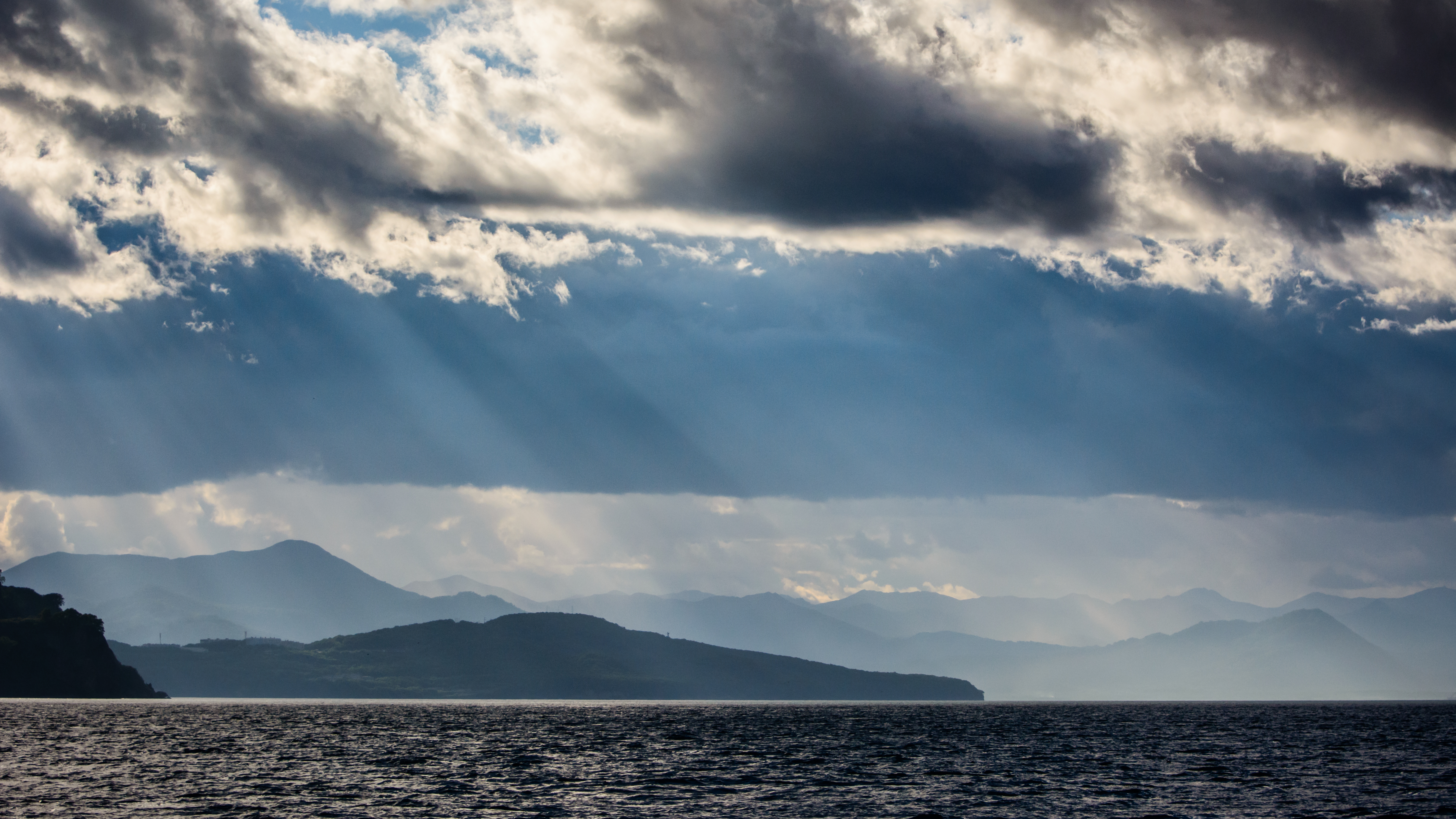 Sun shining through the clouds onto the sea. This picture was taken during a boat tour in Avachinsky bay, Kamchatka, Russia.